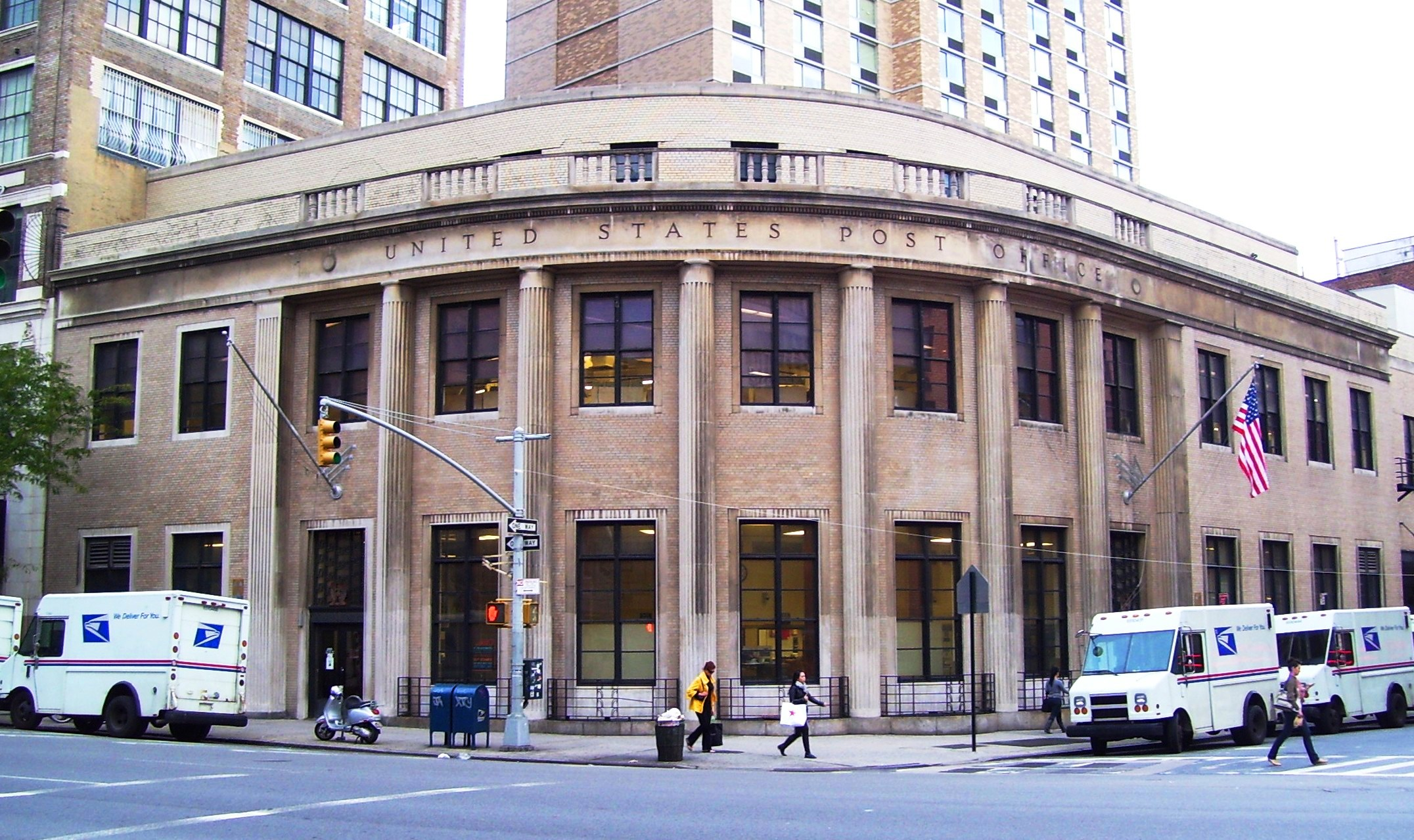 Cooper Station Post Office on Fourth Avenue at 11th Street, Manhattan, New York City; built in the 1920s